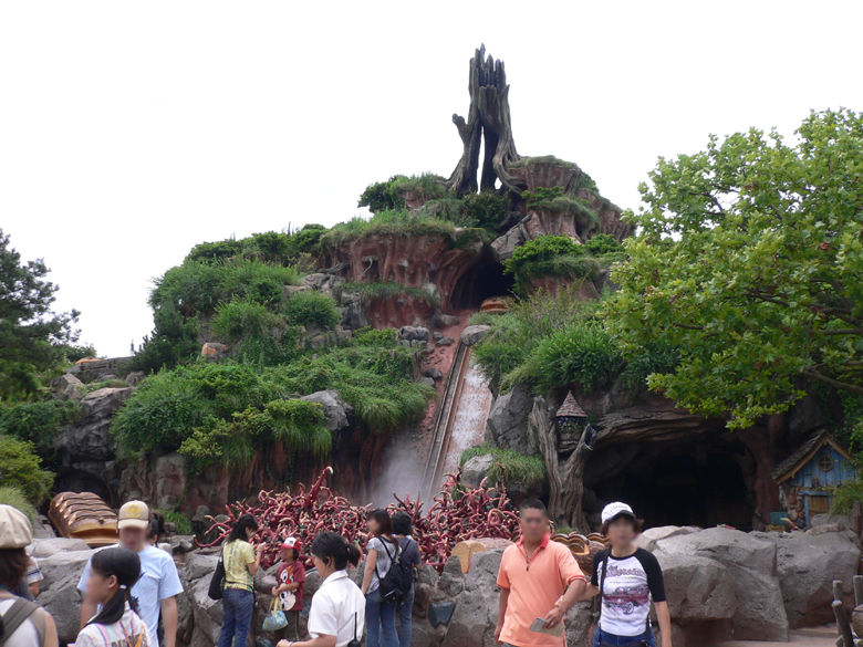 Splash Mountain (Tokyo Disneyland Attraction)